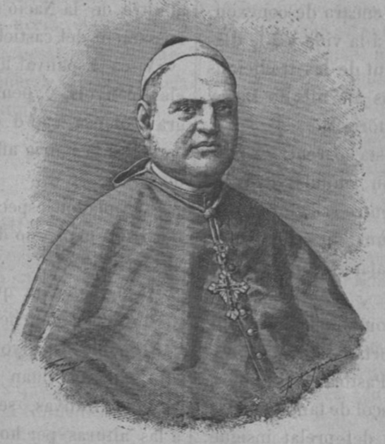 Joan Baptista Grau i Vallespinós, in La Veu de Catalunya magazine of 15.10.1893